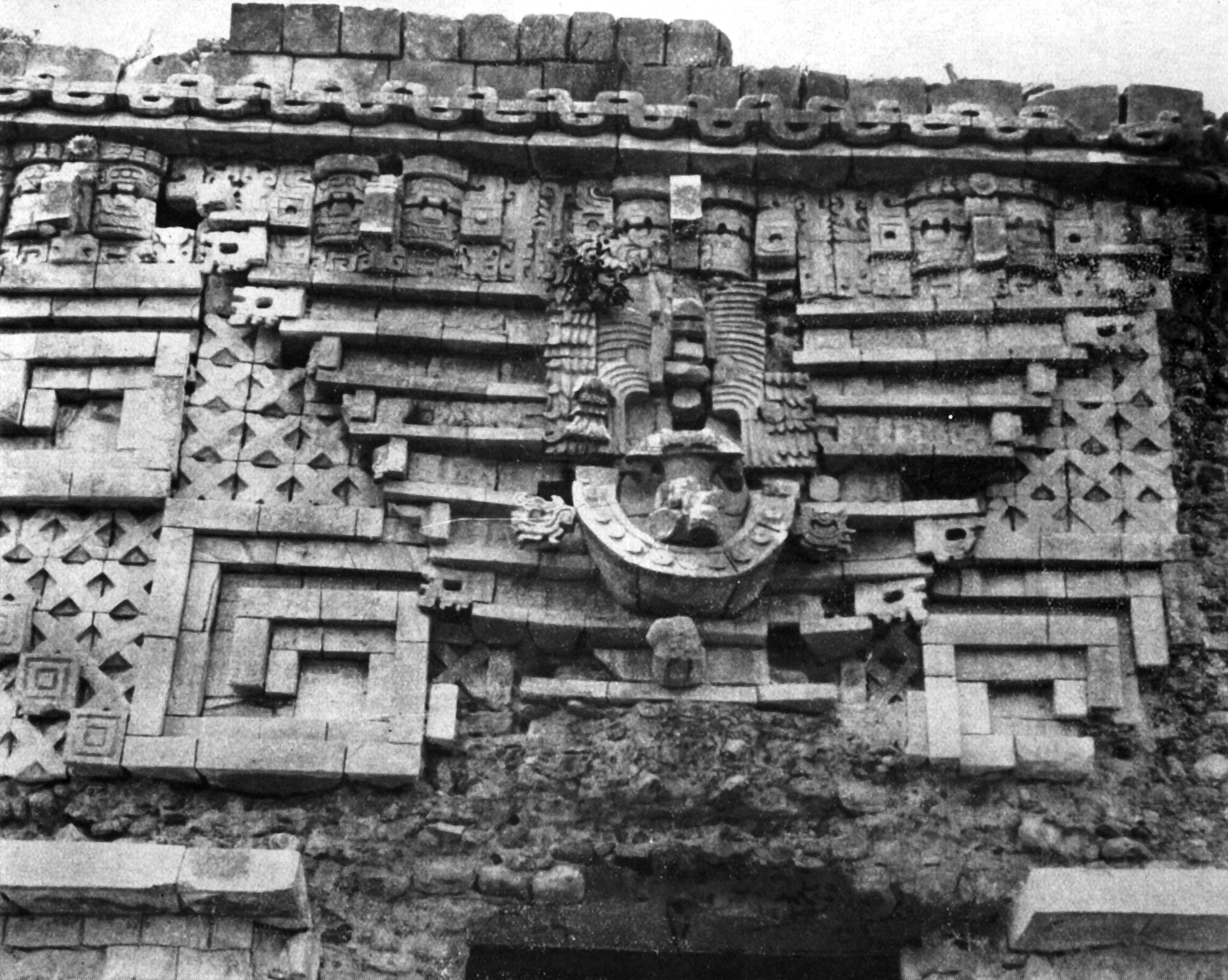 Uxmal, Yucatan, Mexico: Governor's Palace in 1927